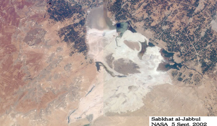 Composite of two NASA photographs of the Sabkhat al-Jabbul of Syria, approximately 36°04′N 037°30′E, as of 5 September 2002, released by NASA 20 January 2004